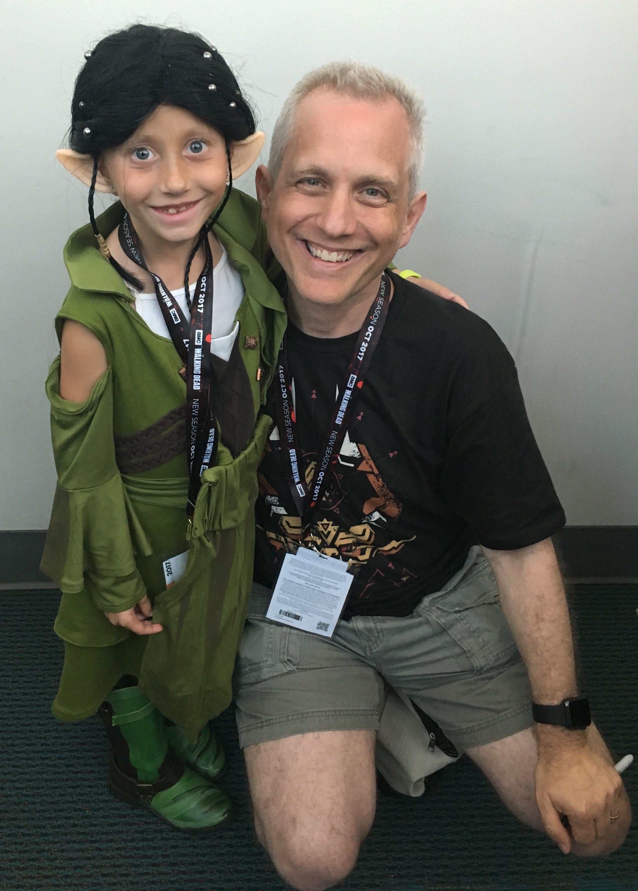 Young competitive Magic player Dana Fischer at 2017-07 Comic-Con with head designer of Magic:the Gathering Mark Rosewater.